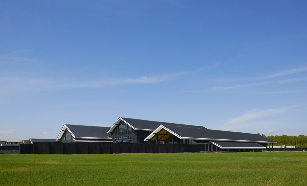 qiqihar